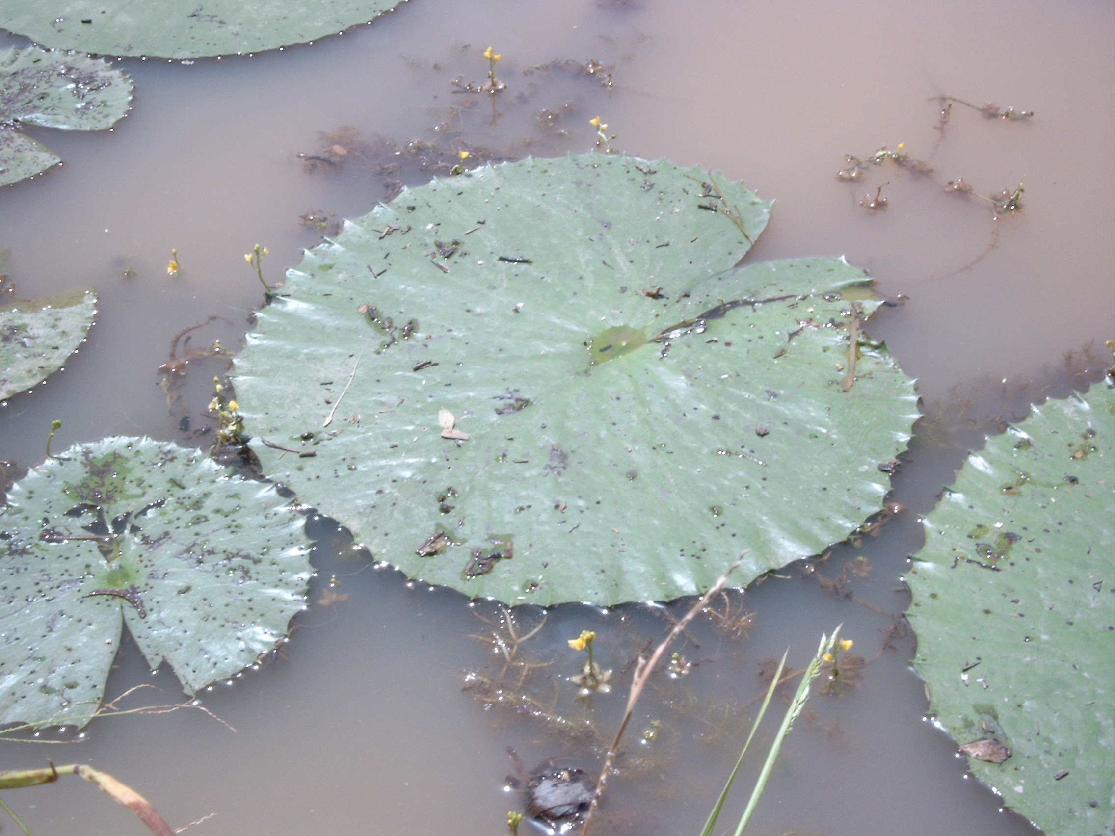 Utricularia stellaris around a leaf of Nymphaea lotus, Burkina Faso